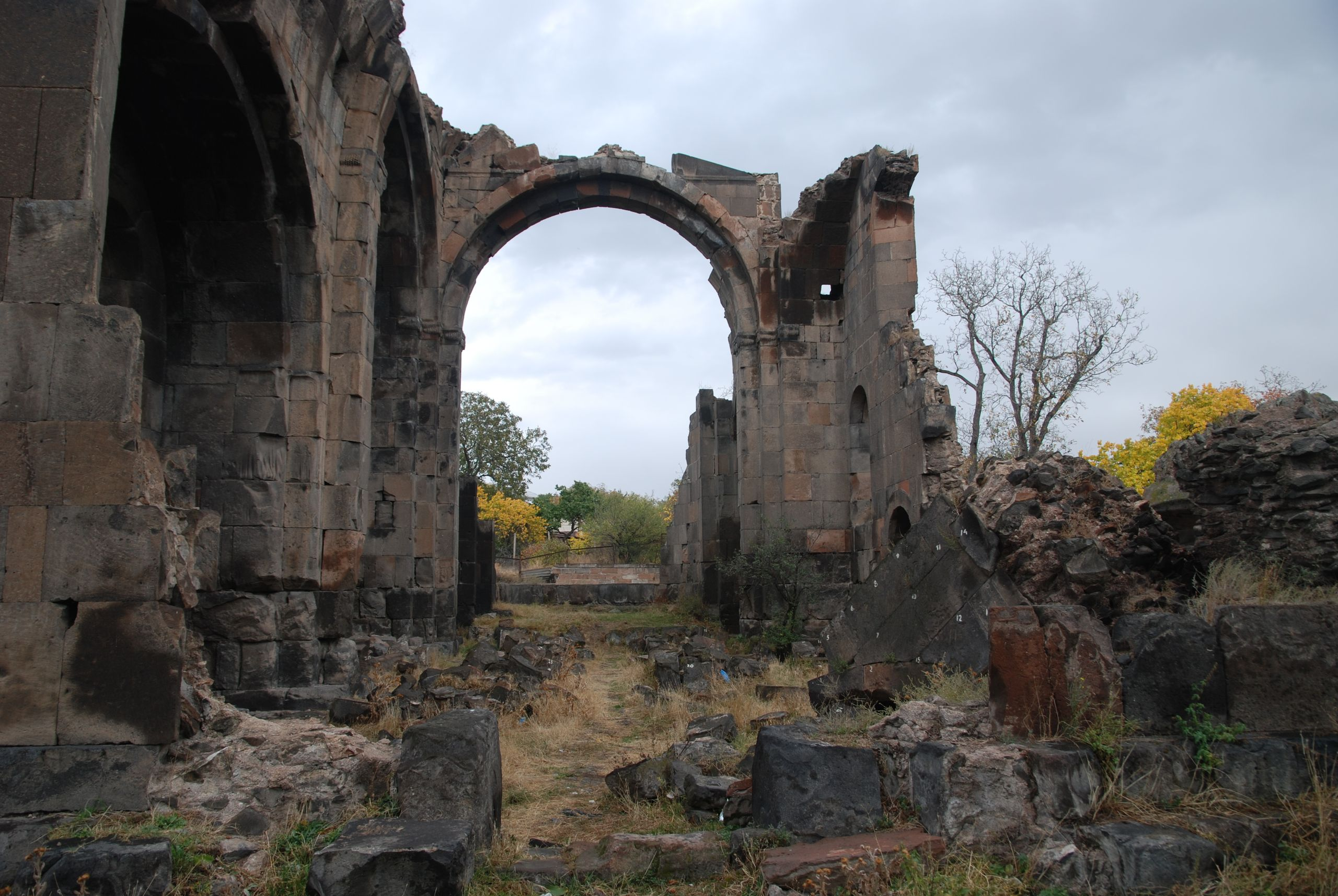 Ptghni, church from west